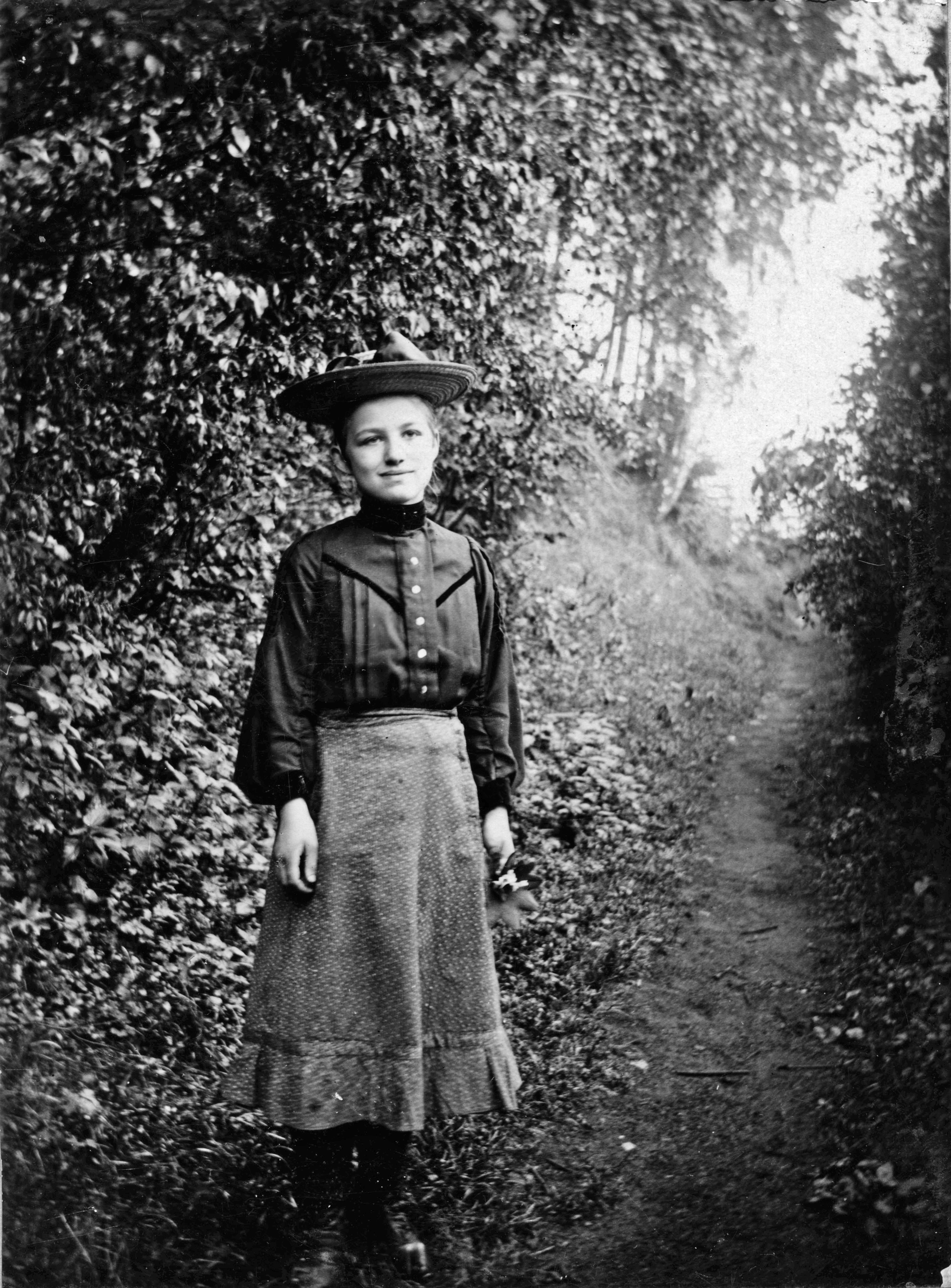 Edith Södergran. Edith Södergrans samling Signum: slsa566_393 Foto: Okänd / Unknown Svenska litteratursällskapet i Finland